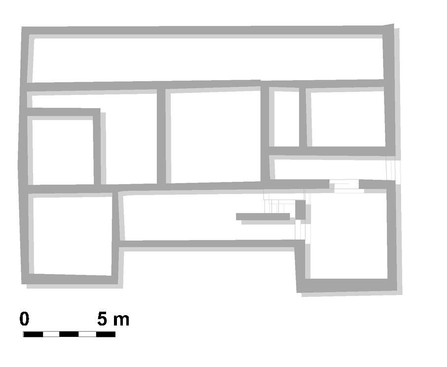 Plan of the villa of Lullingstone, around AD 125